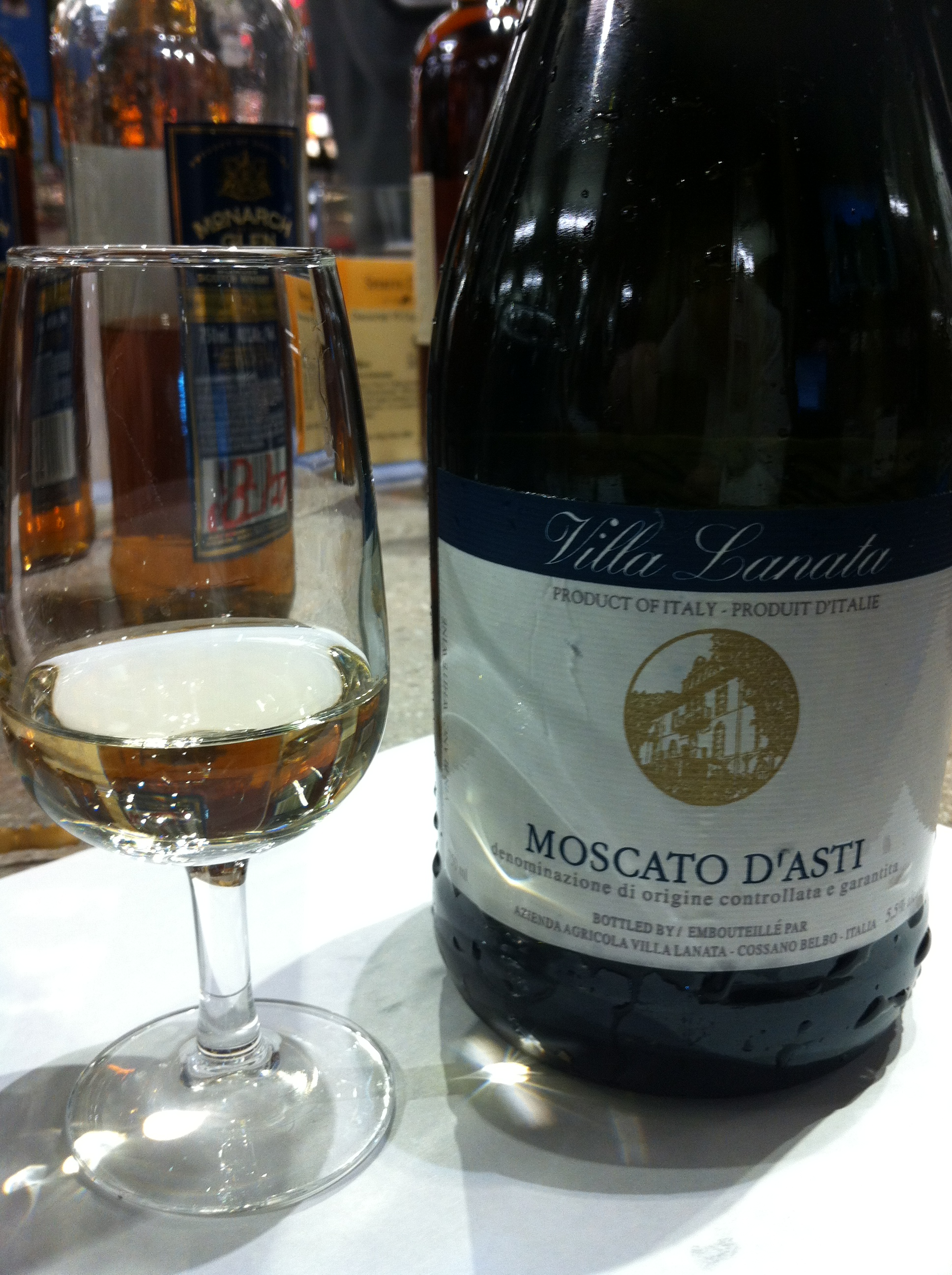 Italian sparkling wine made from the Moscato grape in the Asti region of Piedmont